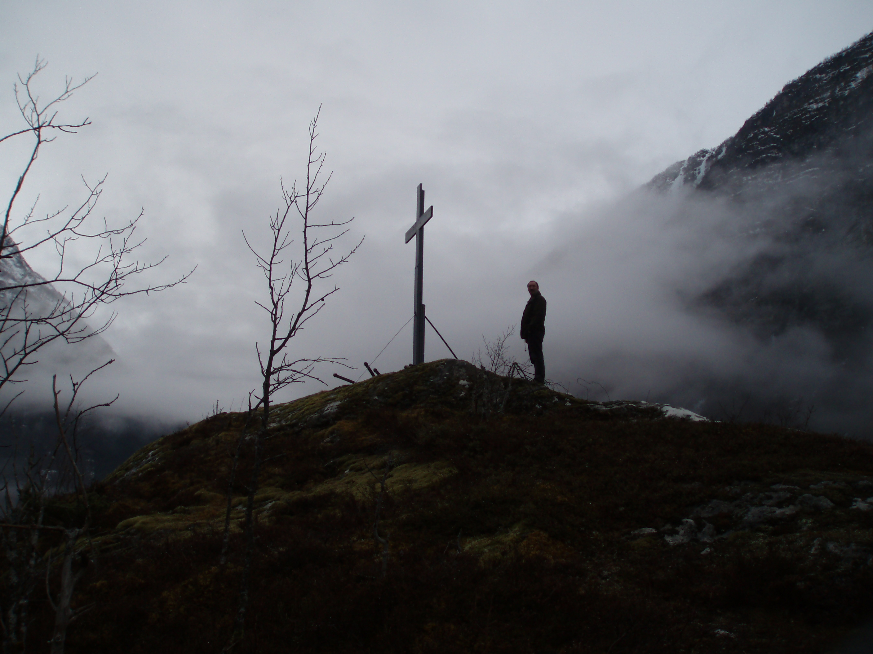 Loen-monument 1936 - "Ramnefjellet" in the Background (right)